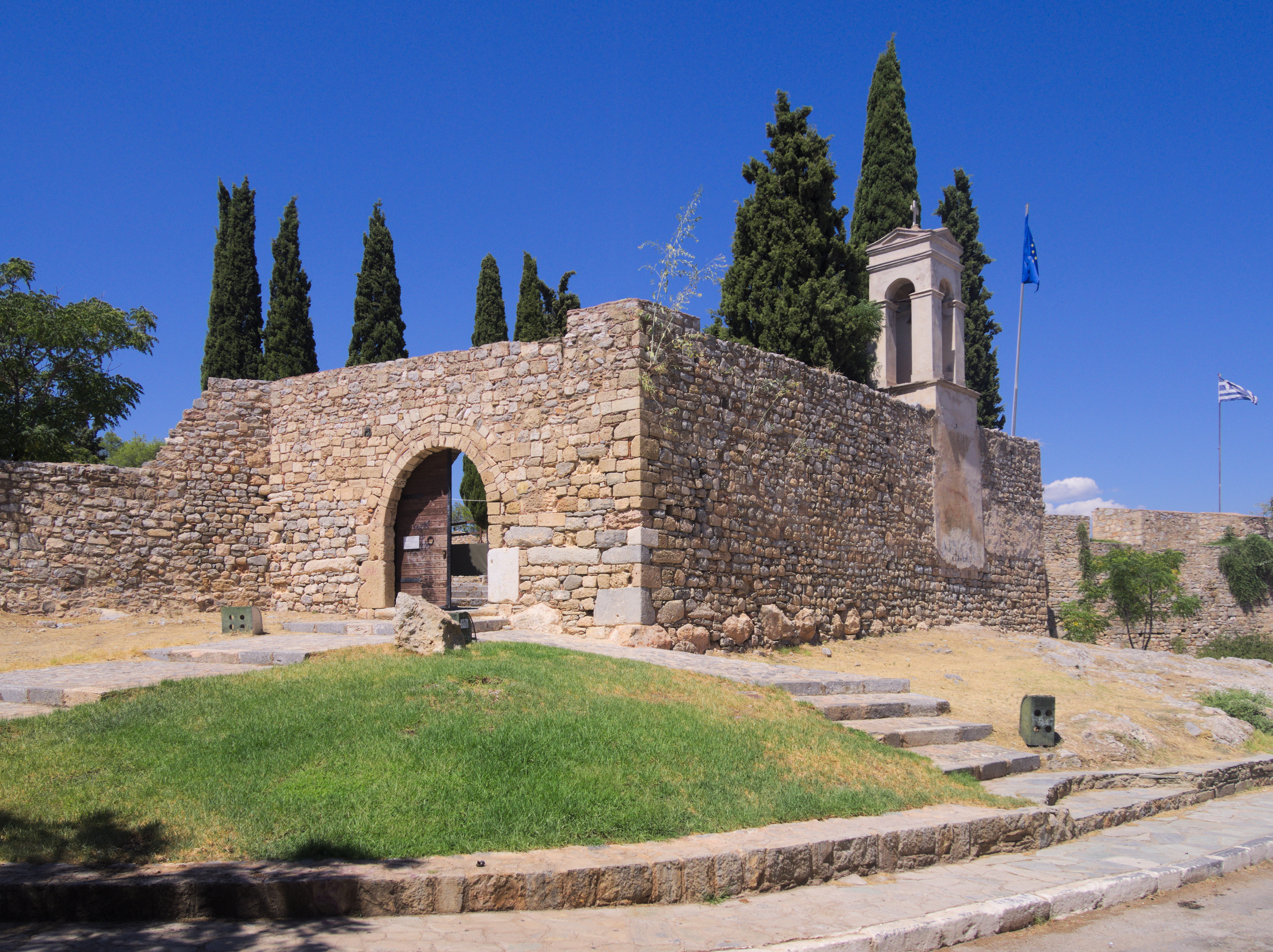 The entrance of Karababas castle, with bell tower visible to the right. A flag pole was removed with GIMP.